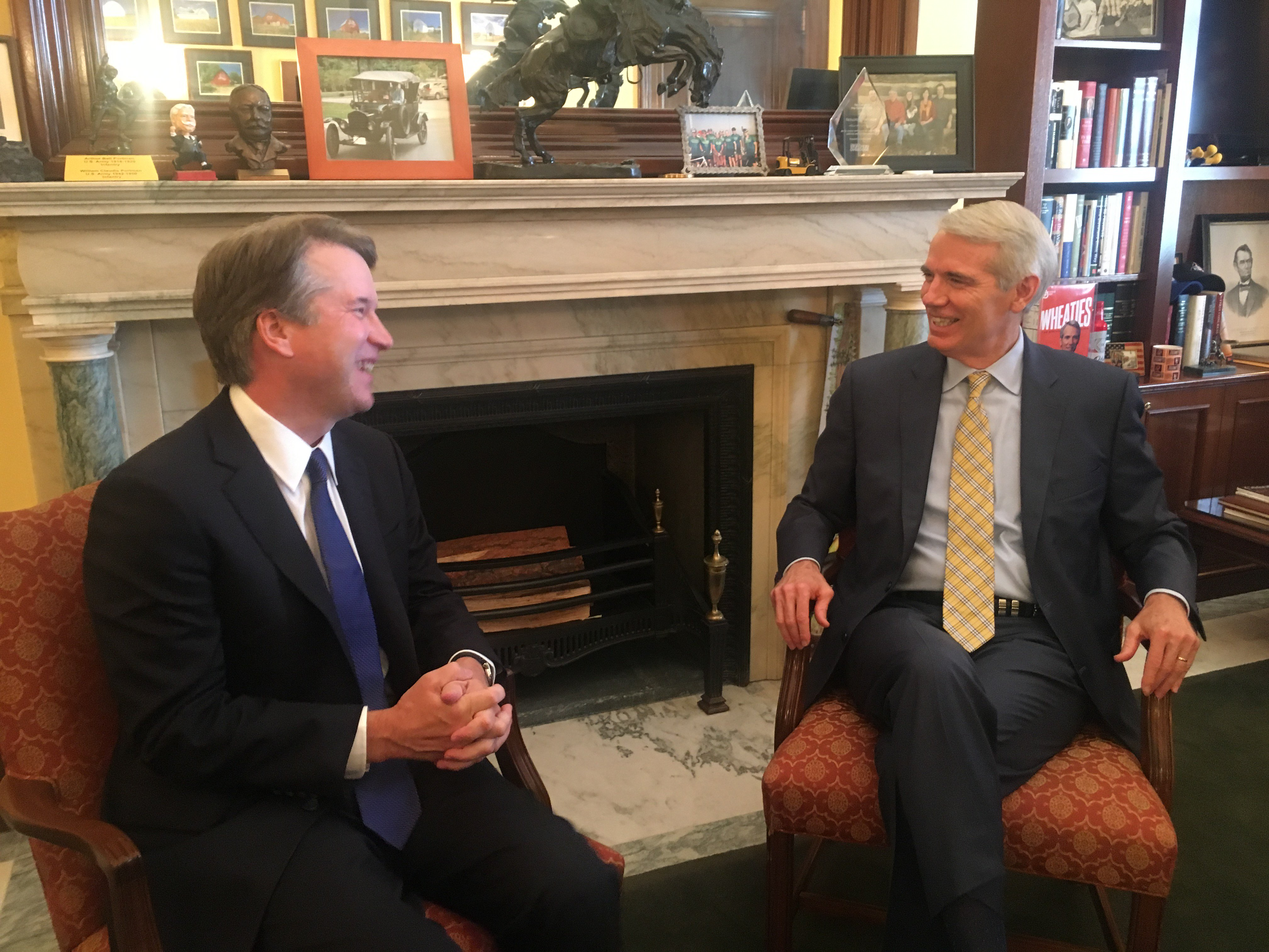 Great meeting today w/ Judge #Kavanaugh. He is exceptionally well-qualified to serve on the Supreme Court, and I urge all of my #Senate colleagues to join me in supporting his nomination. #SCOTUS